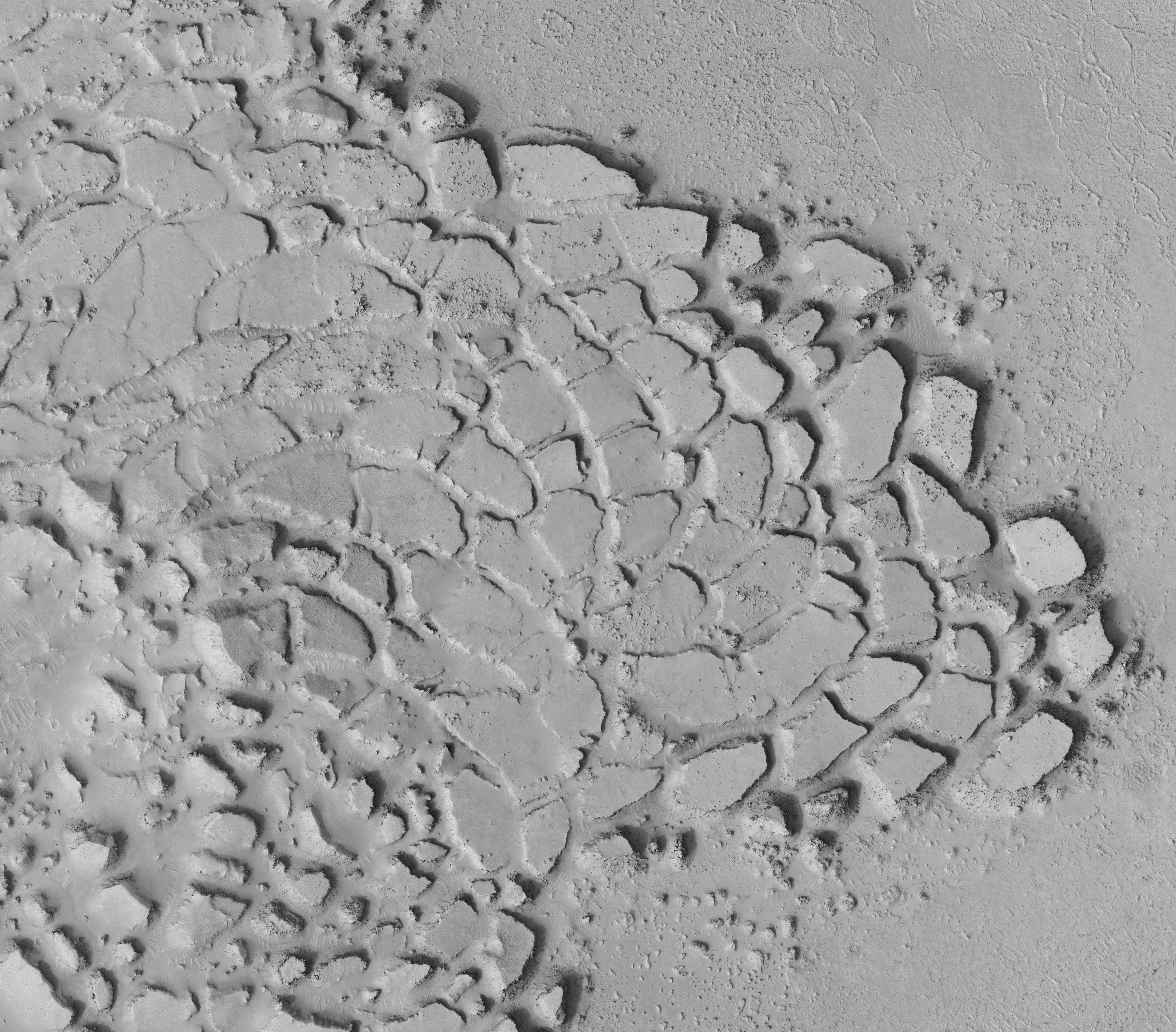 Part of a disrupted blocky outcrop on Cerberus Palus on Mars imaged by the HiRISE instrument aboard the Mars Reconnaissance Orbiter. The image resolution in this down-scaled version is 1 meter per pixel.